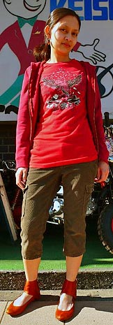 Old Navy hoodie, F.a.n.g. t-shirt, Gap corduroy capris, Mary Sue flats